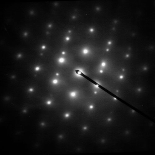 Zone axis diffraciton pattern of twinned austenite in steel. Taken with JEOL 200CX transmission electron microscope. Sample prepared by HF-H2O2-H2O thinning, followed by acetic acid-perchloric acid electropolishing.